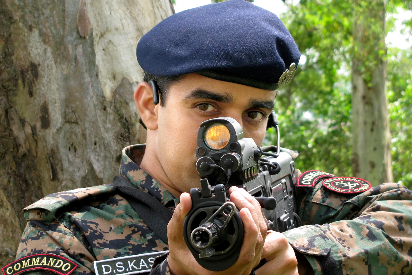 (Best Police Commandos in India)